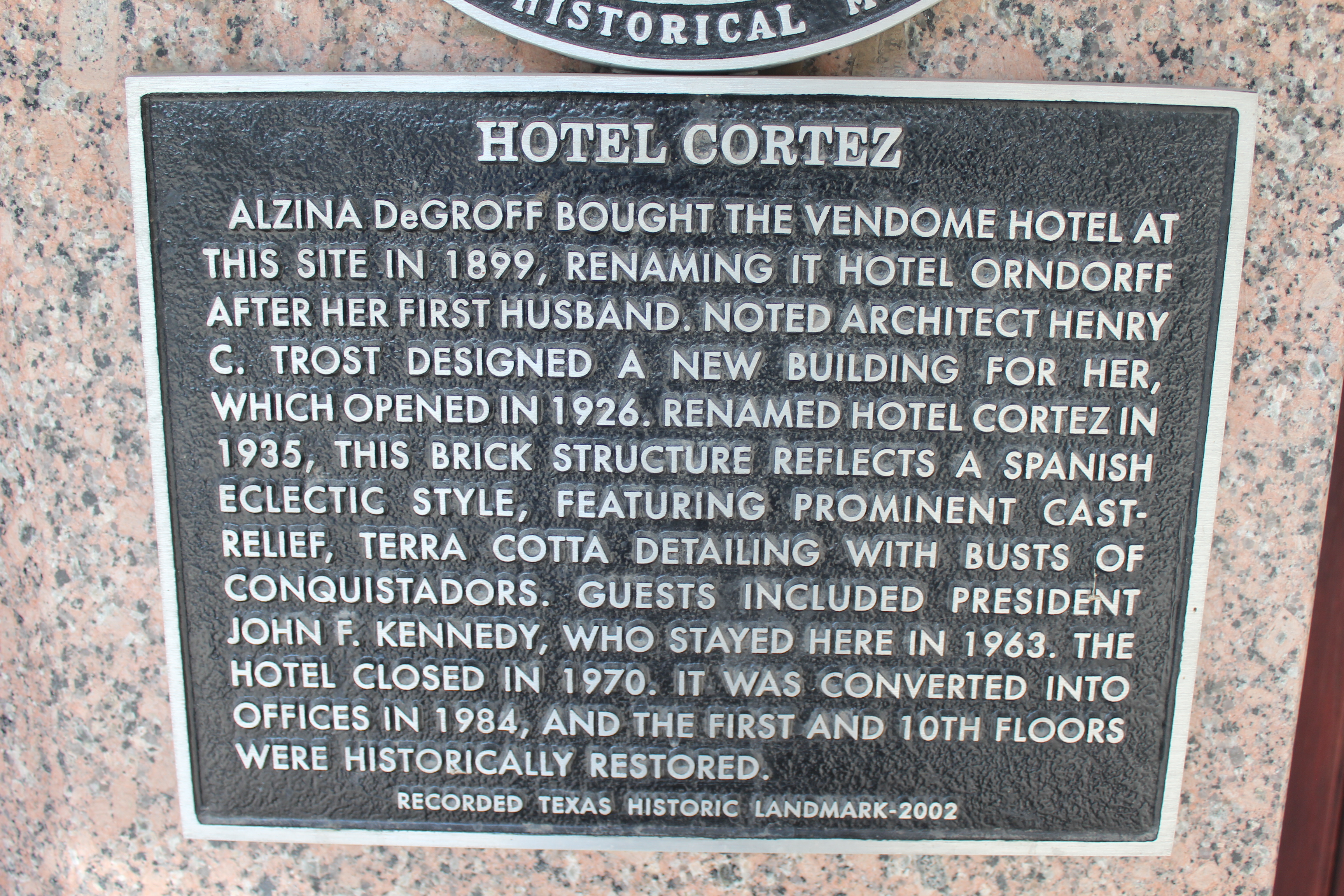 Hotel Cortez, 300 N. Mesa St. El Paso